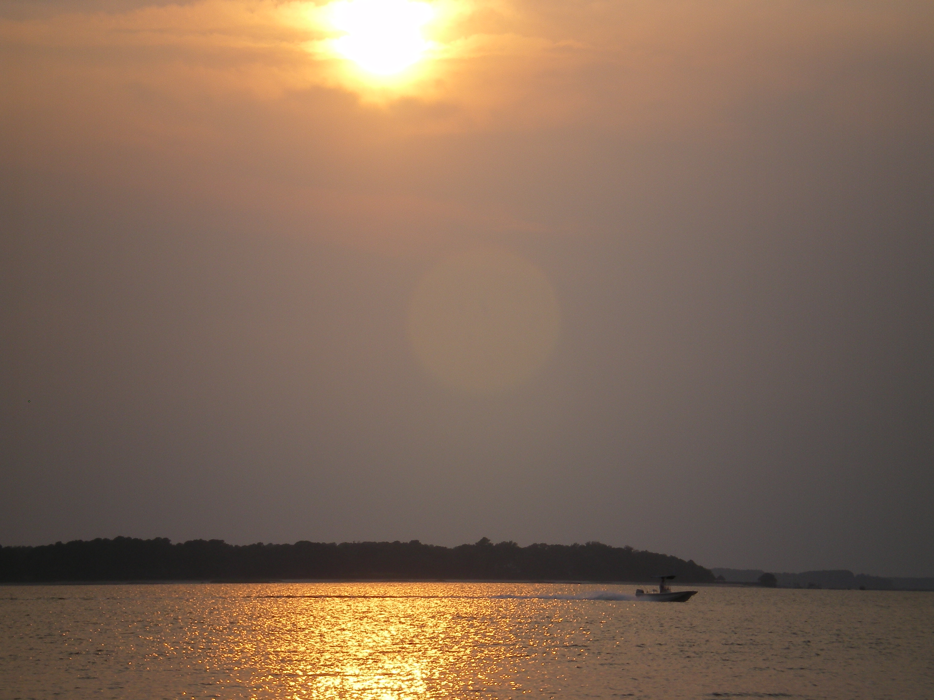 Sunset from Hilton Head Island, South Carolina.